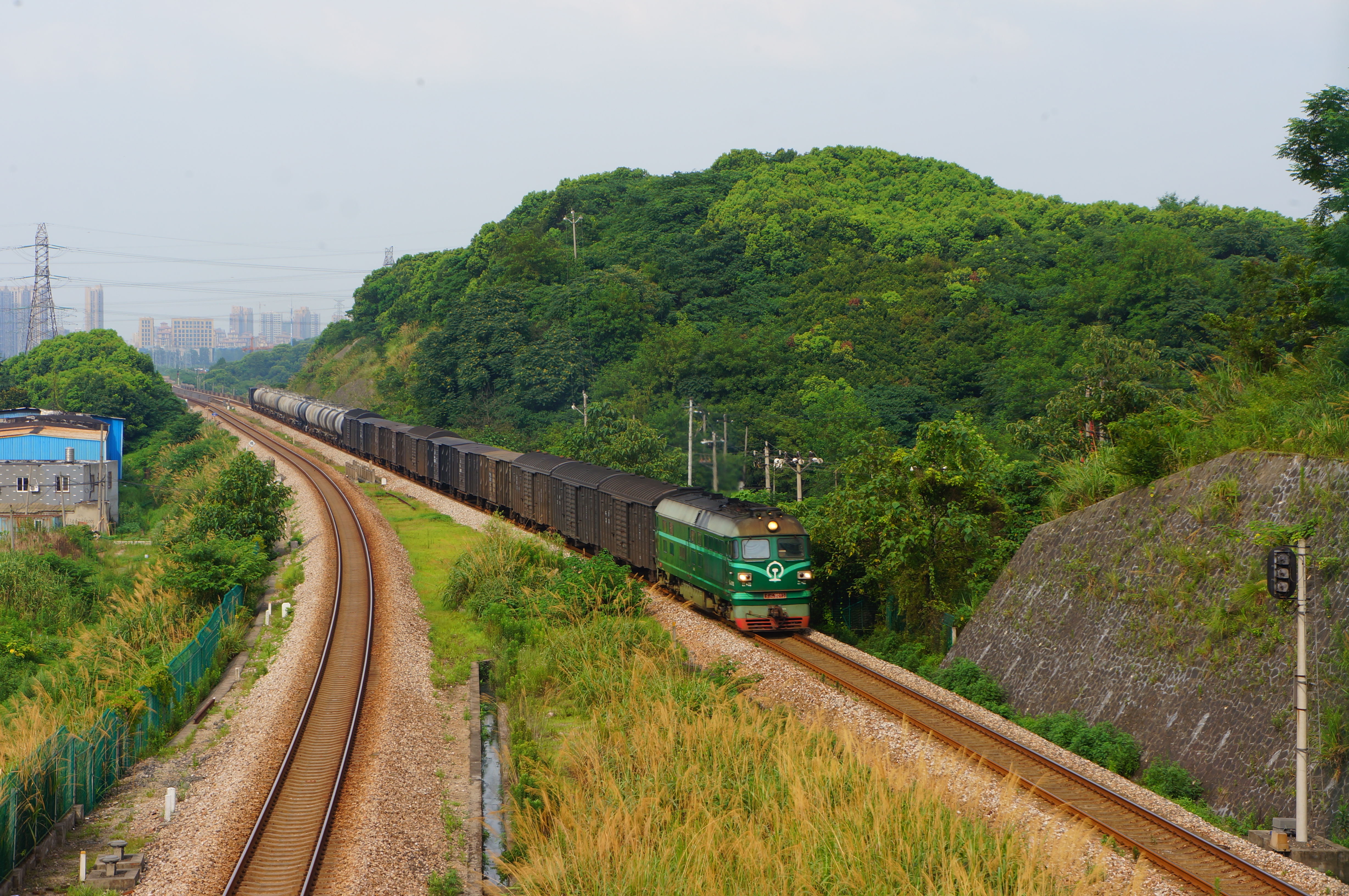 201607 A freight train near Banshan